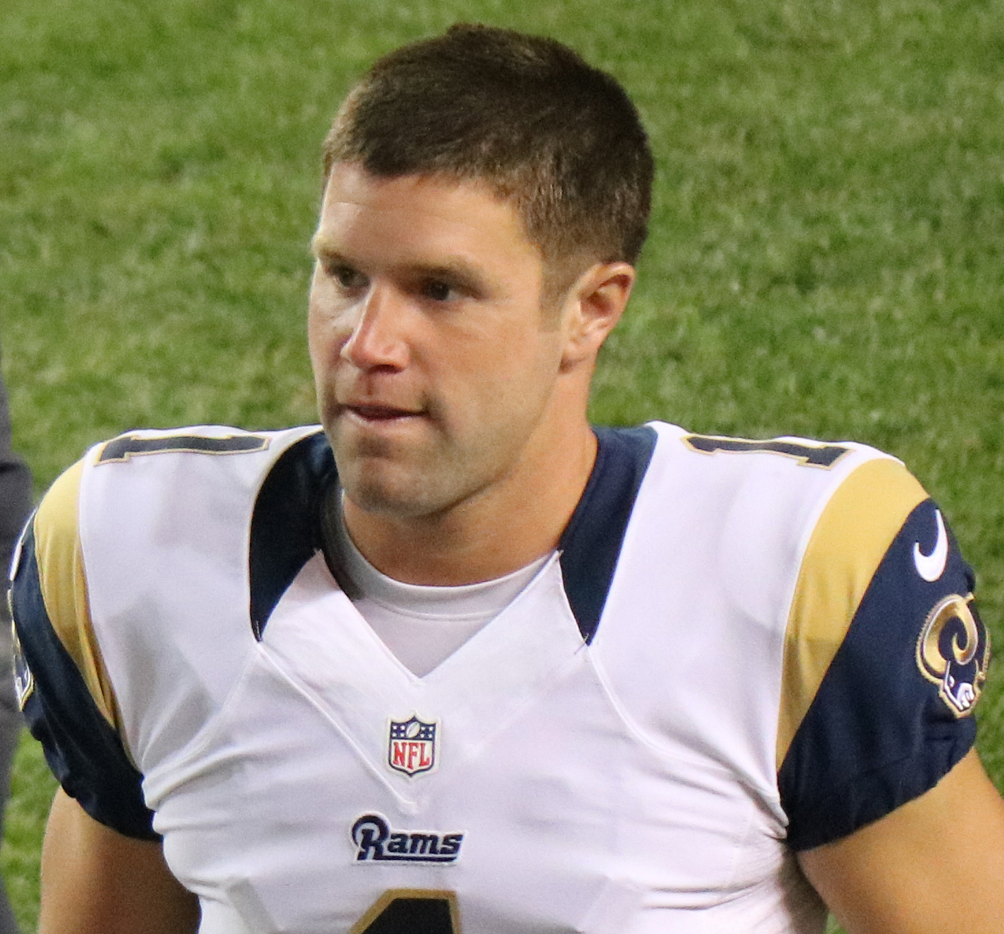 Taylor Bertolet, a player on the National Football League.